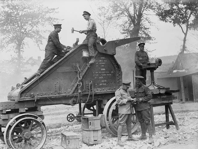 Photograph of riveting repairs being made to the base of a British 15 inch howitzer, France.